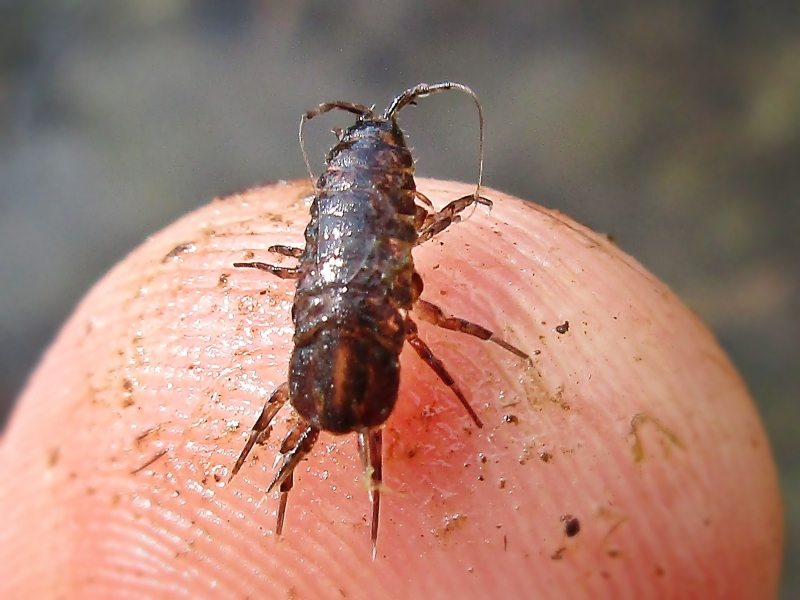 Asellus aquaticus (Asellidae sp.), Arnhem, the Netherlands